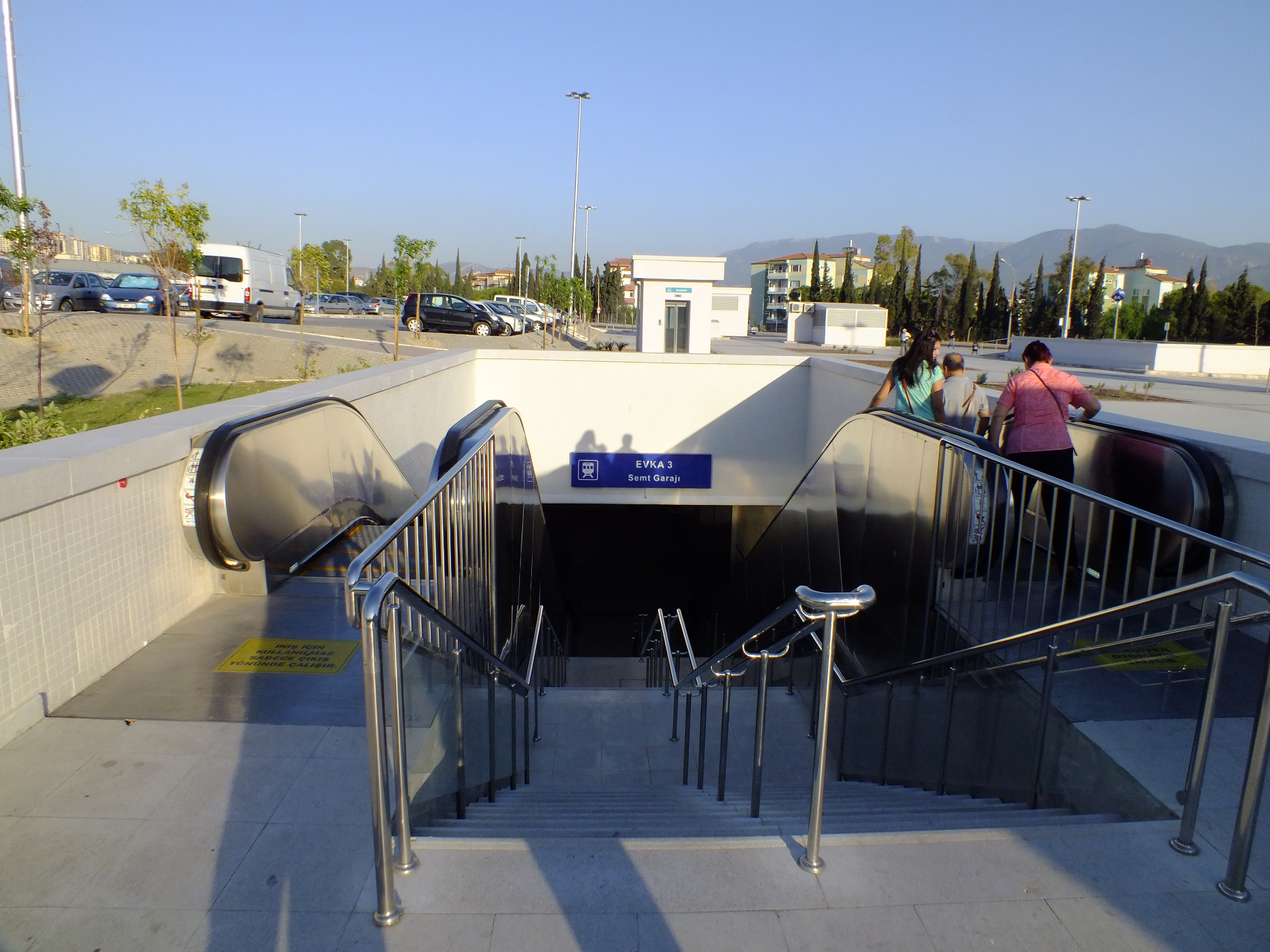 Entrance to Evka 3 station.